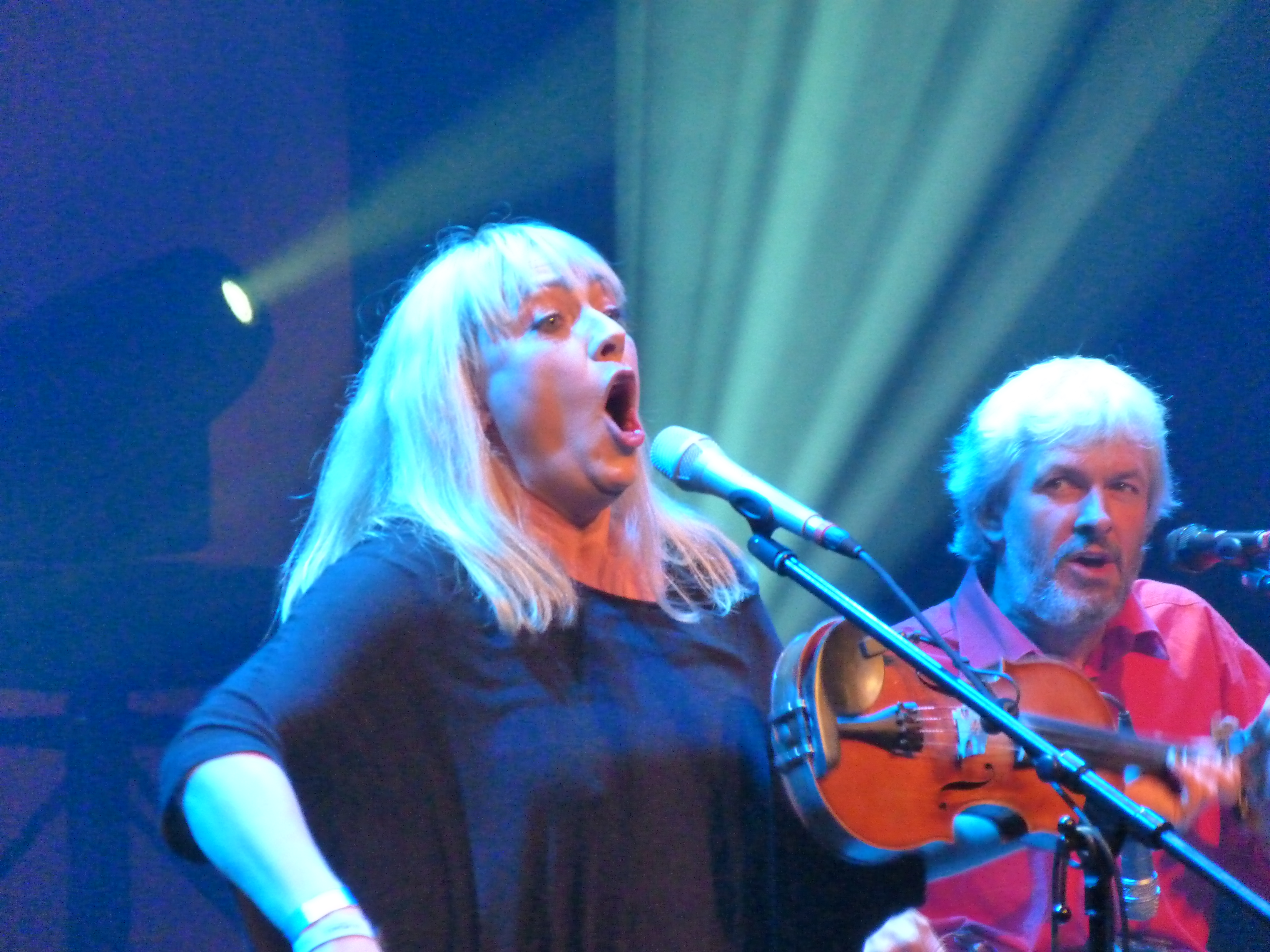 Taken on 24th of October, 2015. WOMEX 15. World Music Expo. Budapest, Hungary. Muzykanci (Poland).